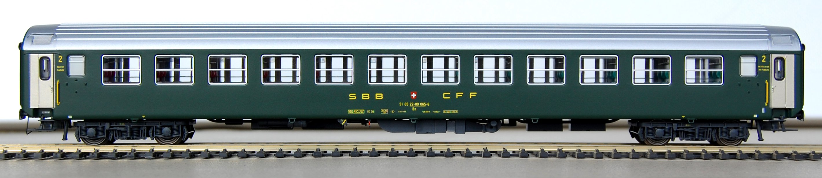 UIC-X Bm coach of the SBB with 12 2nd class compartments; scale model by LS Models, ref. 47215.